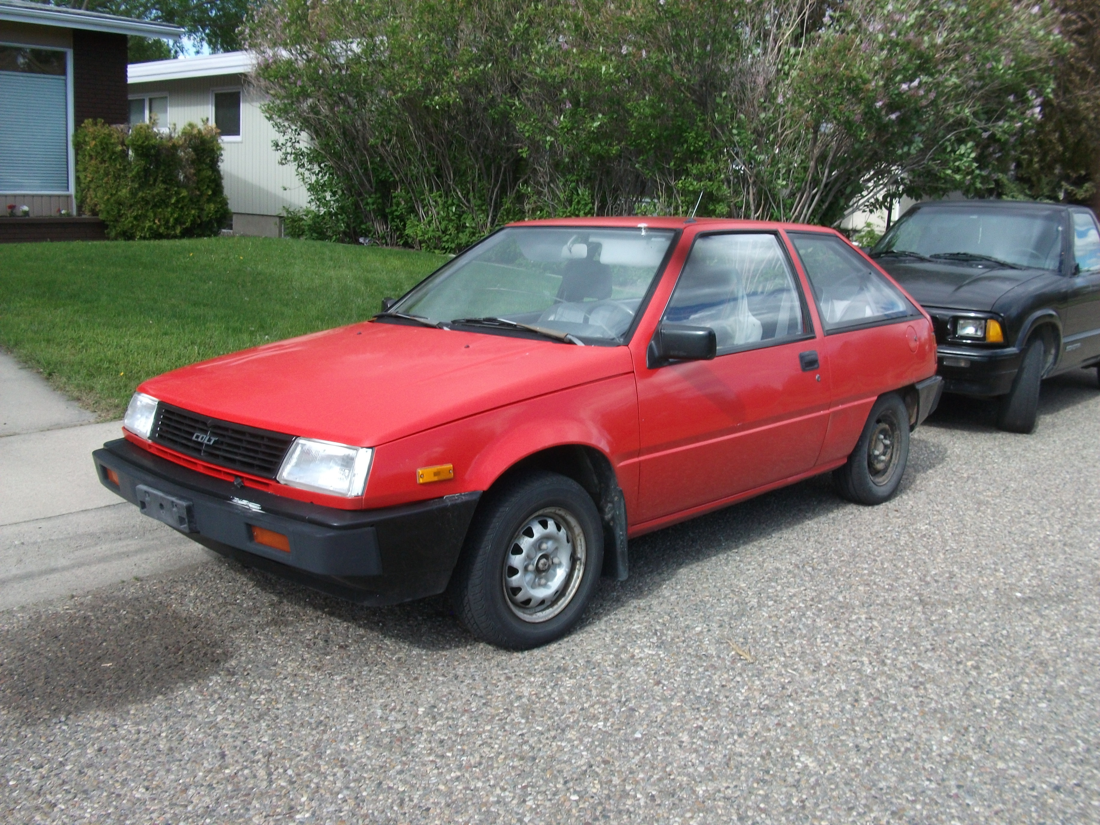 Colt 100E hatchback